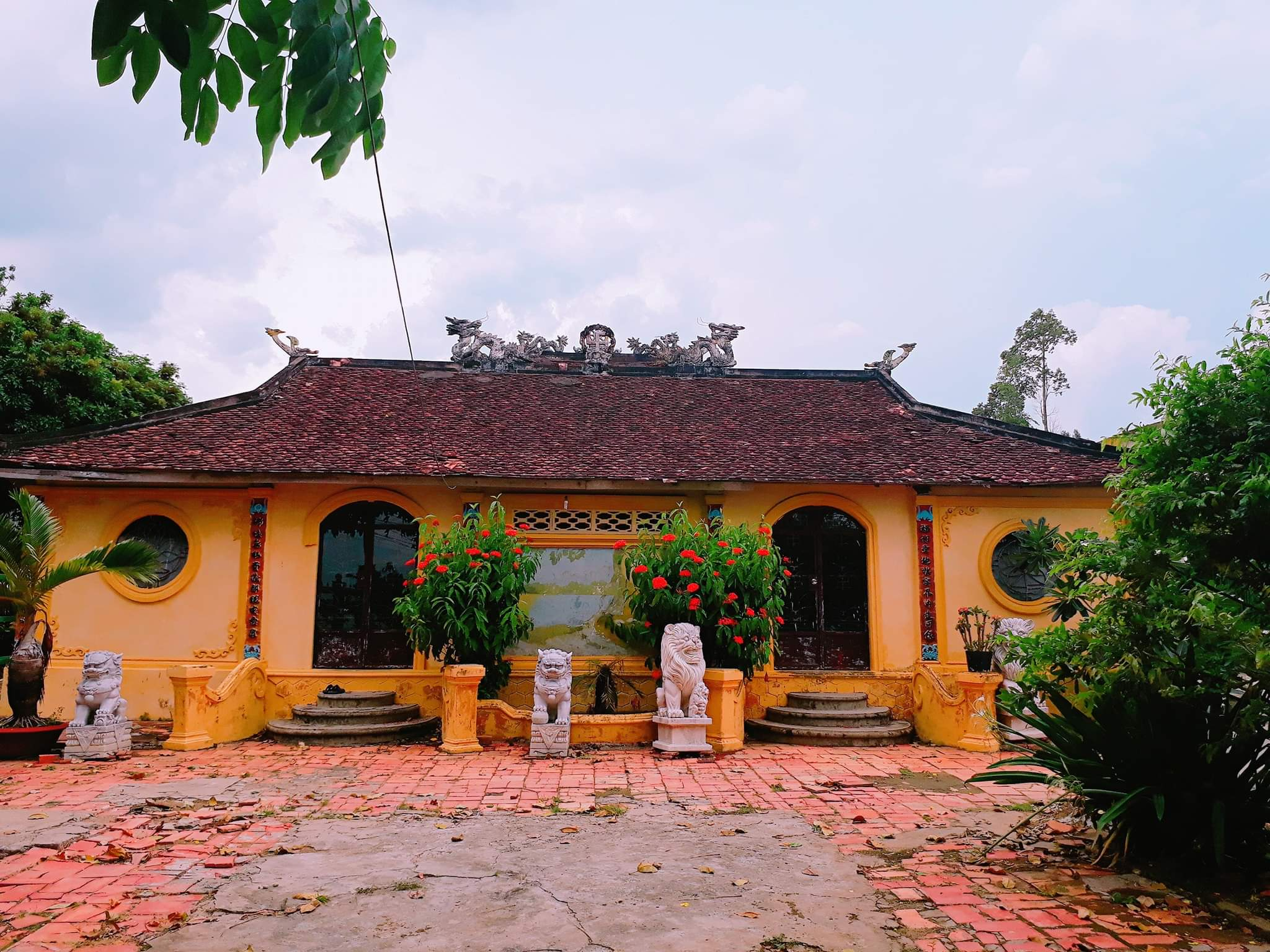 Hoi Phuoc Temple